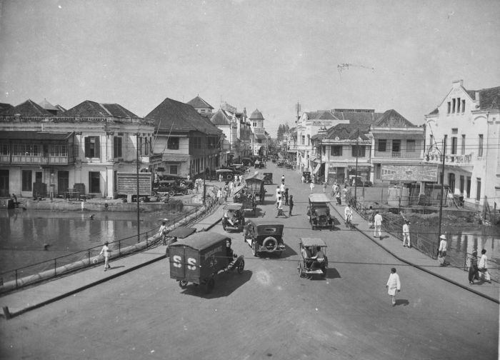 The red bridge ('Roode Brug') and the 'Handelstraat', 'Jembatan Merah' in indonesian